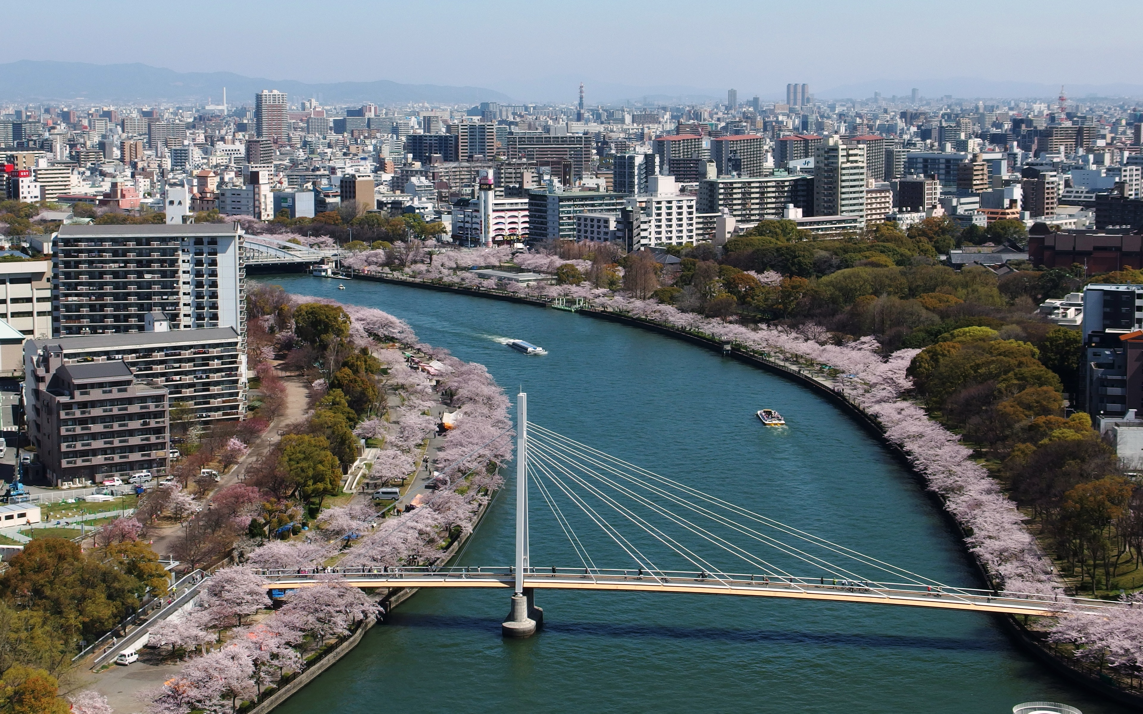 Sakuranomiya Park in Osaka, Osaka Prefecture, Japan